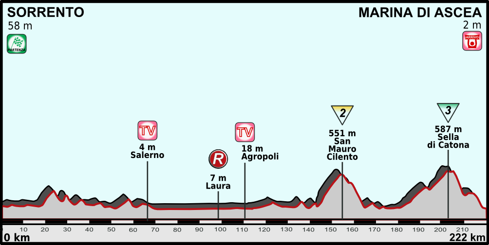 Giro d'Italia 2013 - stage profile # 03